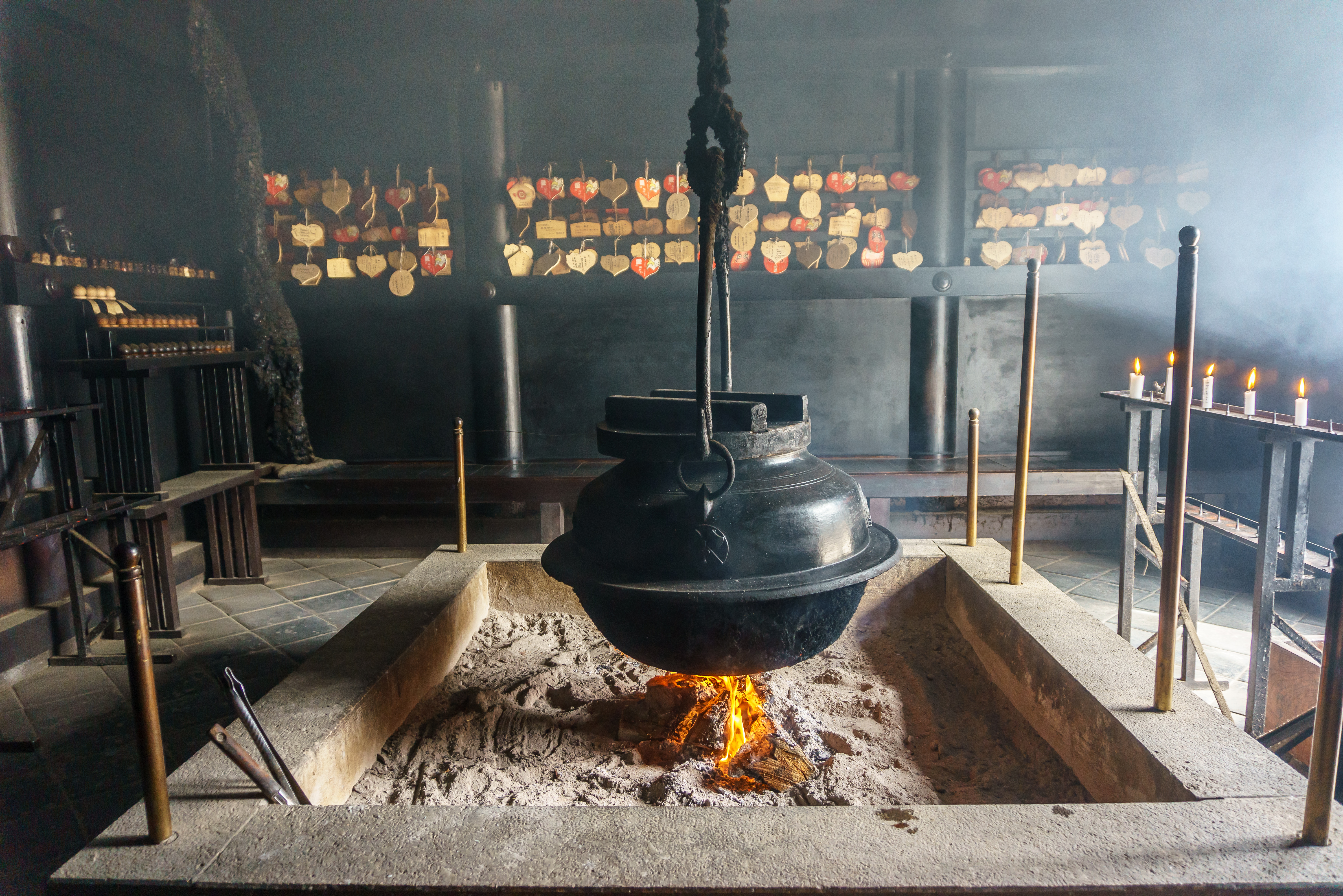 The Kiezu no Hi fire atop Mt. Misen. Miyajima, Japan.